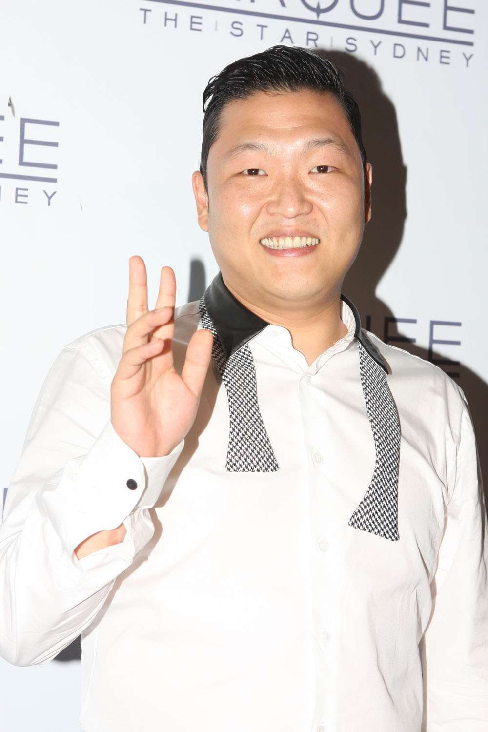 Psy Gangnam Style performs at Marquee, The Star, Sydney, Australia. Korean rap music sensation Psy (Park Jae-Sang) performed at Sydney's famous Marquee nightclub at midnight last night. It was obvious one or two VIP's and high rollers were in town, with police having a strong presence in and around the one time casino - now more an integrated entertainment and gaming hub, complete with nightclubs and entertainment attractions a plenty. The only thing - person Marquee Sydney and The Star was missing was Psy, and now that's complete how will they top that! We hear maybe with KISS, The Rolling Stones and / or Blondie and Pink, but that's just rumour at this stage... but do expect at least one of those big time acts to follow in Psy's footsteps. The music video for "Gangnam Style" is the most viewed K-pop video on YouTube, and also the most "liked" video on the site. Published on July 15, 2012, the video has over 480 million views, and more than 4.1 million "likes." Psy has appeared on numerous television programs, including The Ellen DeGeneres Show, Extra, Good Sunday: X-Man, The Golden Fishery, The Today Show, Saturday Night Live and Sunrise. Stay tuned and don't change your dial for more hot news on Psy and more of the world's top entertainment attractions. Websites Psy official website Marquee Sydney Eva Rinaldi Photography Flickr Eva Rinaldi Photography Music News Australia